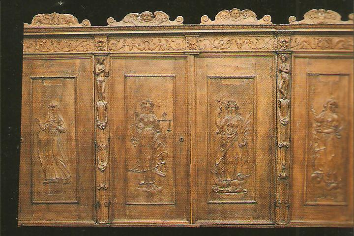 Particular of some closets of sacristy in the room 3 of the Capitular Museum of Atri, formerly in the destroyed sacristy of the Cathedral. They were built between 1690 and 1692 by Carlo Riccione, a skilled abruzzese student of Gian Lorenzo Bernini.